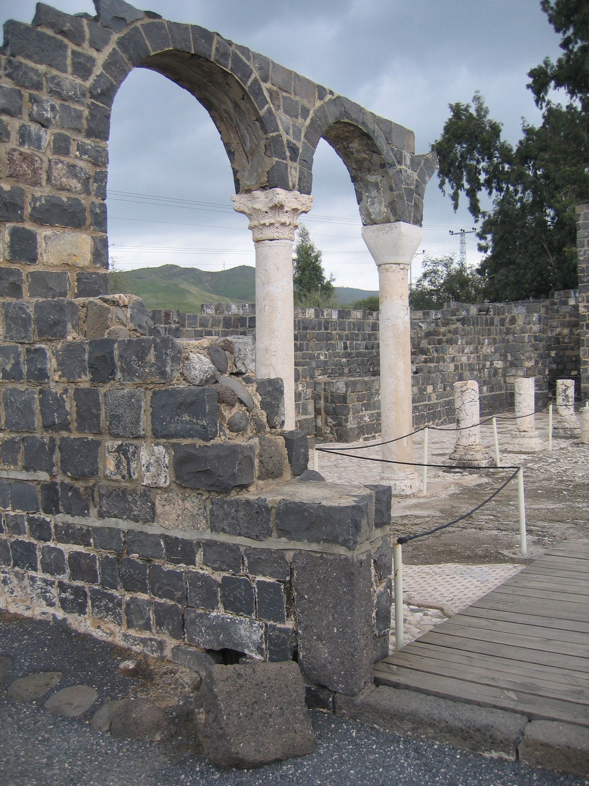 Kursi